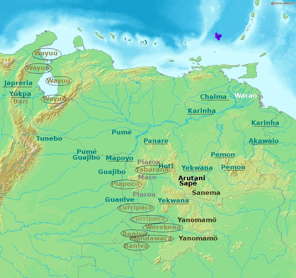 Main Venezuelan First Nations.